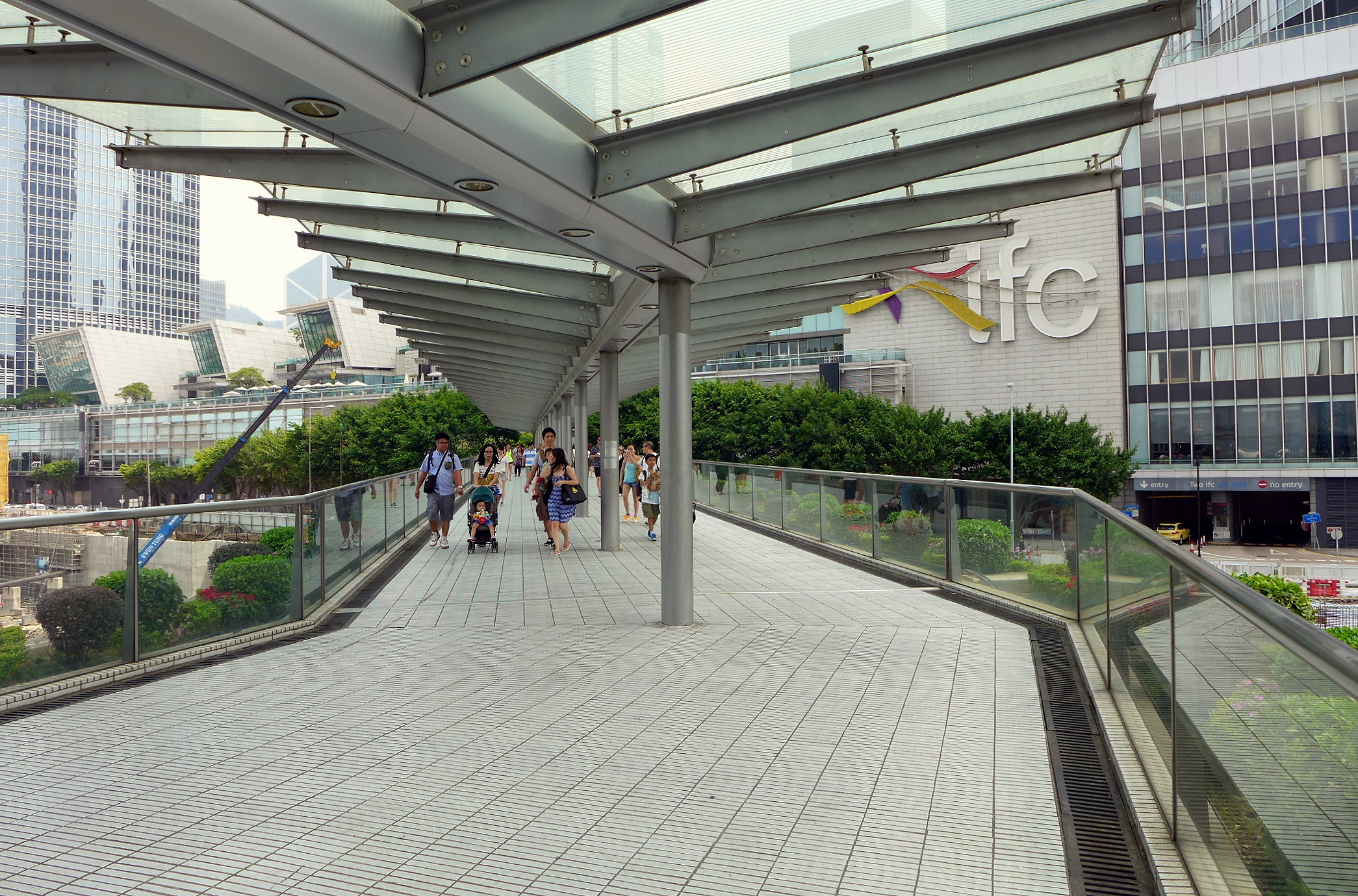 Central Elevated Walkway Near ifc